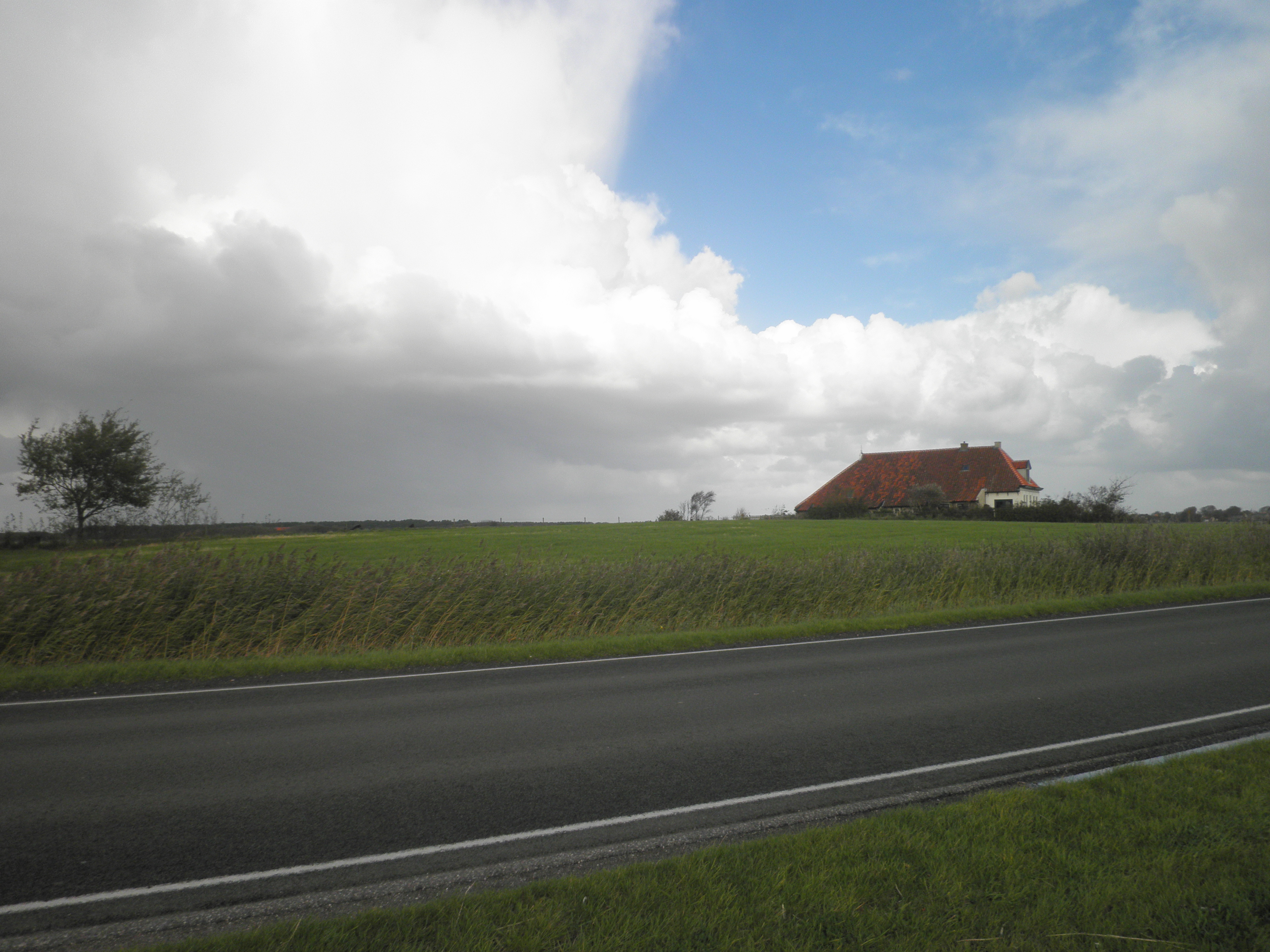 Horp on the island of Terschelling in the Netherlands. Nationally listed archeological heritage because of remains of late medieval habitation below elevation.